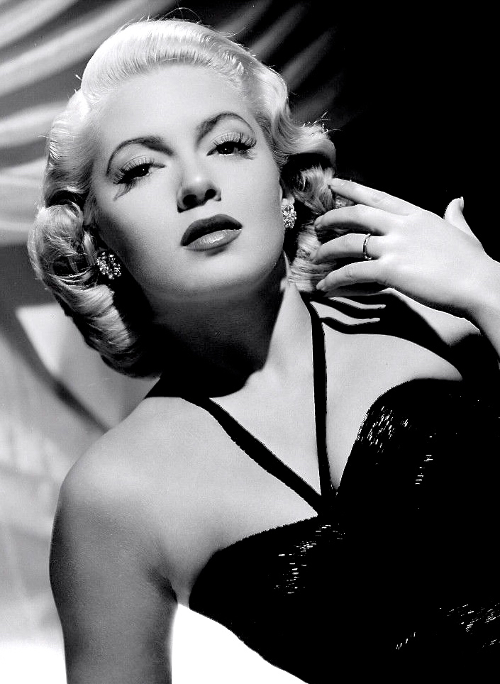 Lana Turner in a publicity photo for Slightly Dangerous (1943)